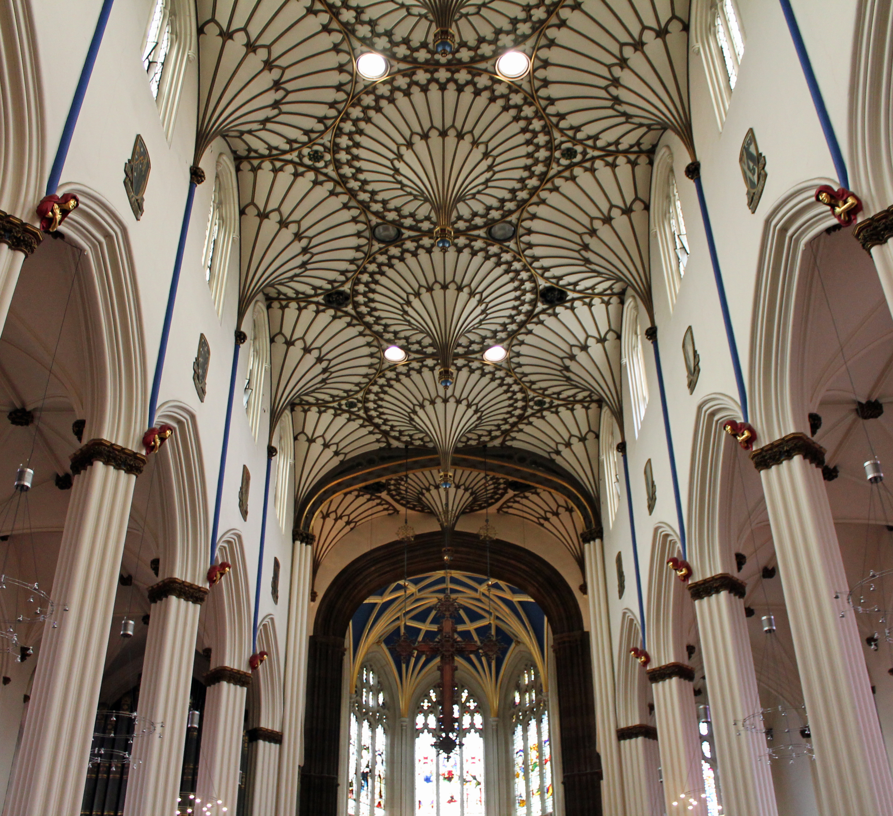 St. Mary's Cathedral, Edinburgh, Scotland